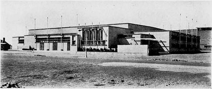 Jan Wils (architect). Strength Sports Hall for the 9th Olympiad, Amsterdam. 1926-1928 (?).